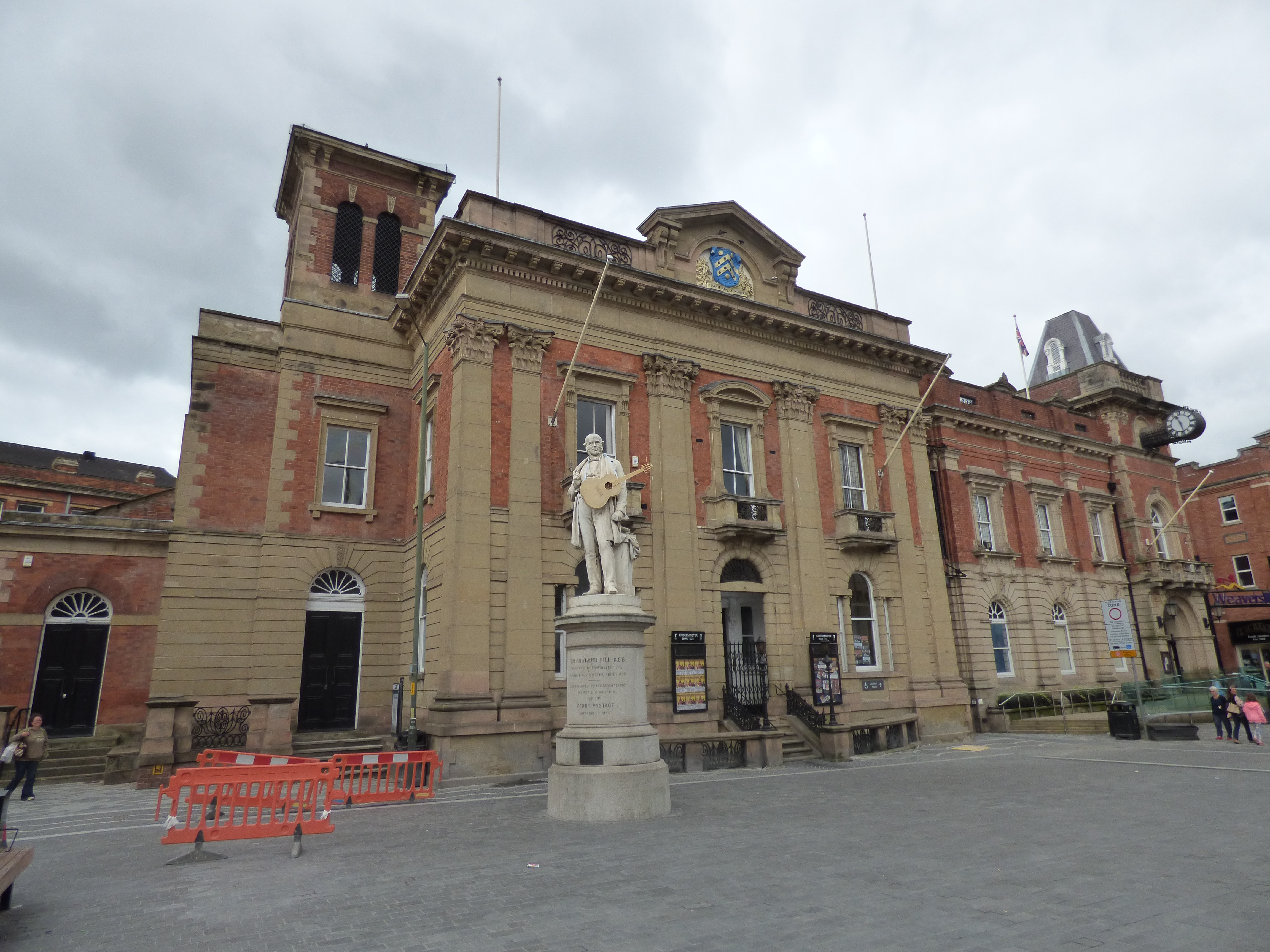 The civic heart of Kidderminster Town Centre. Penny Black Square Sir Rowland Hill statue outside Kidderminster Town Hall. With a guitar from the Kidderminster Arts Festival that took place during August 2016. Grade II listed. Statue of Sir Rowland Hill, Kidderminster VICAR STREET 1. 5250 Statue of Sir Rowland Hill SO 8376 1/88 II GV 2. Circa 1881, by Sir Thomas Brock. Circular granite plinth with standing stone statue. Inscribed 'Born at Kidderminster 1795 buried in Westminster Abbey 1879' and 'To his creative mind and patient energy the world is indebted for the Penny Postage introduced 1840'. Listing NGR: SO8318676564 The Town Hall is Grade II listed. The Town Hall, Kidderminster VICAR STREET 1. 5250 (west side) The Town Hall SO 8376 1/90 II GV 2. 1876-7, by J T Meredith. District Council premises; formerly council offices and chamber, and magistrates court. Two storeys in red brick with stone dressings. Brick parapet with inset iron grilles and stone cornice on brackets. Pilasters in brick with stone caps divide the 3 bays. Flat carved cornices on brackets to windows, carved aprons, cills on brackets. Ground floor in channelled rustication has 3 round-headed windows and a round-headed entry below a window with stone balcony. Clock on a wrought bracket. Barometer in the wall. Hansard roof with round-headed attic windows. Listing NGR: SO8314776555 This text is a legacy record and has not been updated since the building was originally listed. Details of the building may have changed in the intervening time. You should not rely on this listing as an accurate description of the building. Source: English Heritage Listed building text is © Crown Copyright. Reproduced under licence.